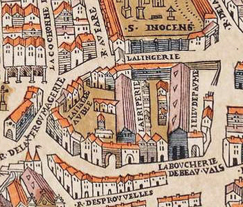 Les Halles on the plan of Truschet and Hoyau (1550).